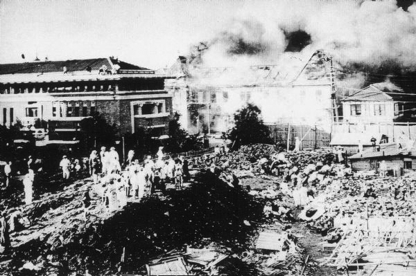 Imperial Hotel by Frank Lloyd Wright (left) shortly after the Great Kantō Earthquake of 1923. To the right is Kangyō Bank on fire.